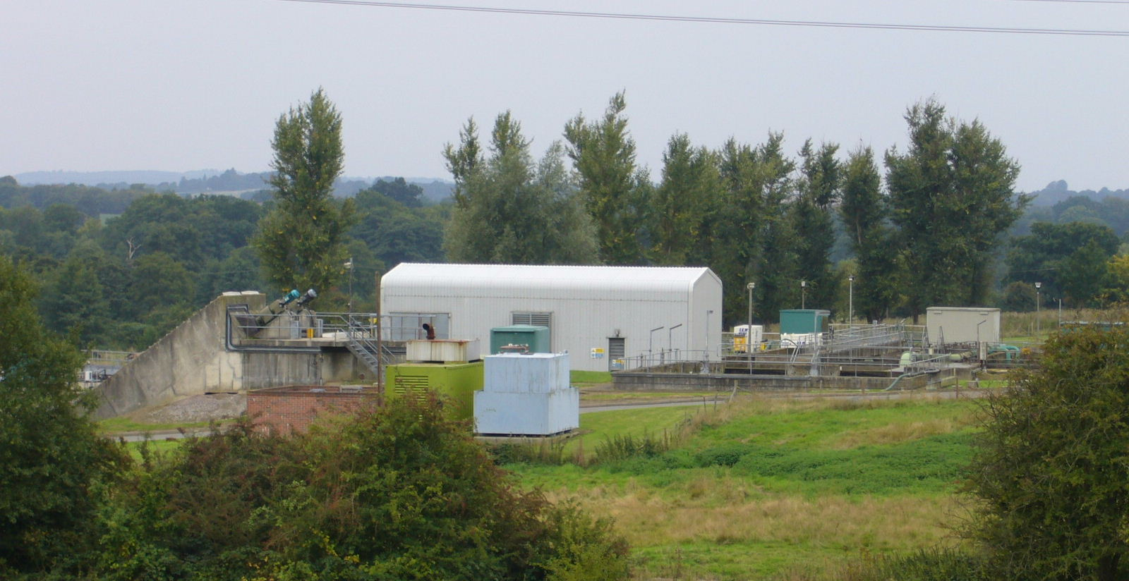 Tunbridge Wells South Wastewater Treatment Works seen from grid reference TQ546382 looking southwest in Broom Lane, Langton Green west of Tunbridge Wells, England. The works are operated by Southern Water. The sloping structure on the left is a pair of Archimedes' screws used for pumping the water.